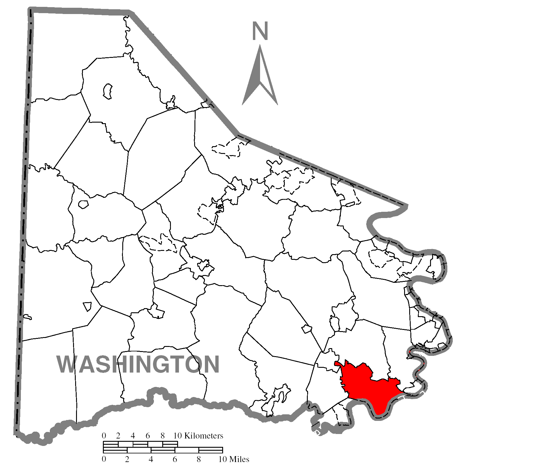 Map of Washington County higlighting Centerville.